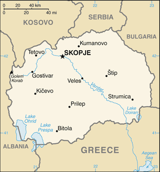 Map of Macedonia